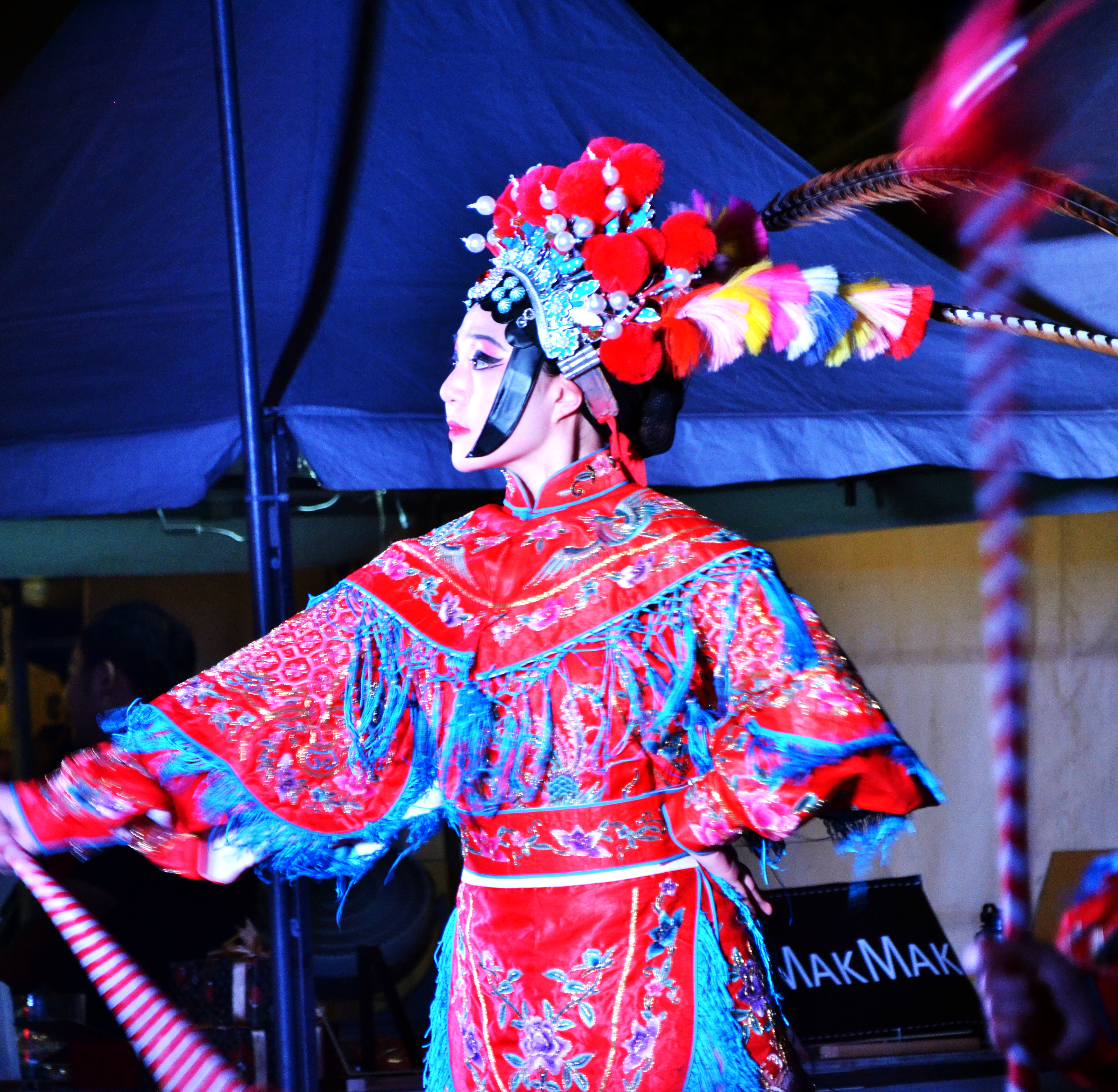 Artist performing cultural dance at Chinese new year festival at Tumbalong park, Darling Harbour, Sydney 2019